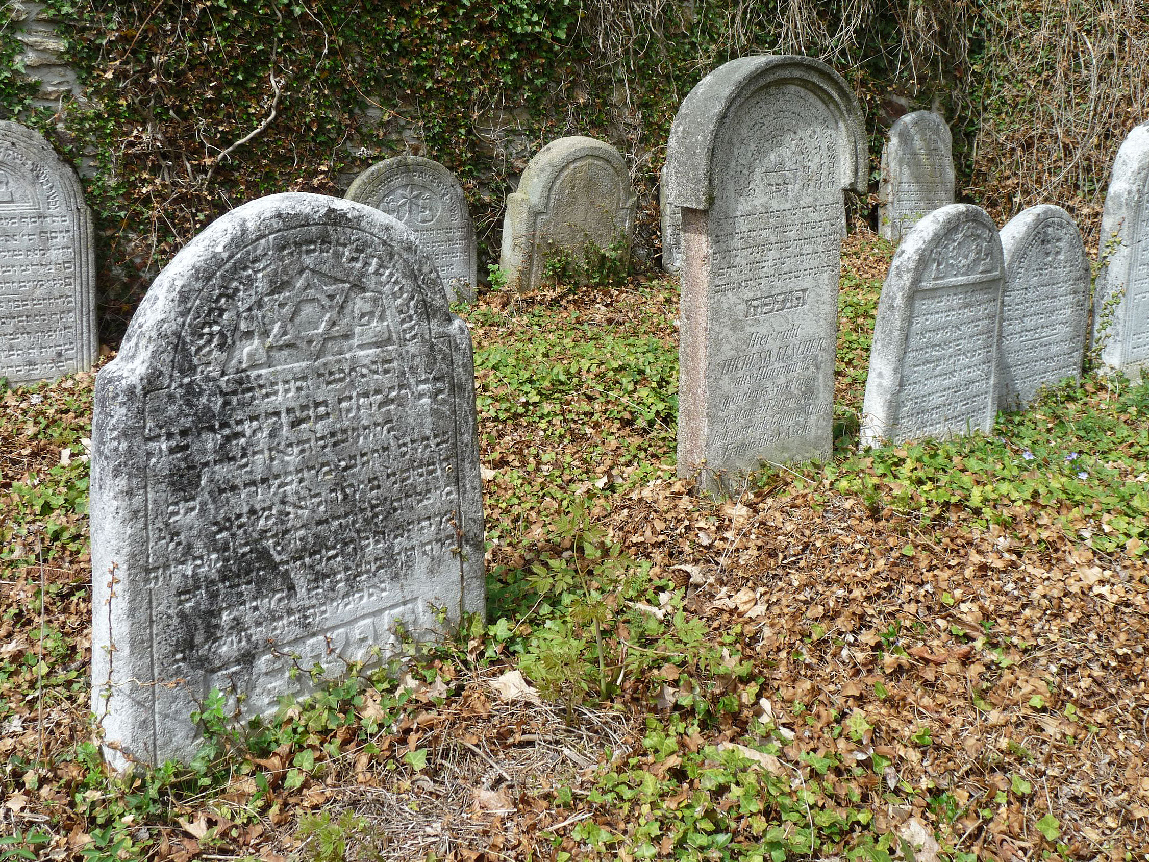 Jewish cemetery in Velhartice, Klatovy District, Czech Republic